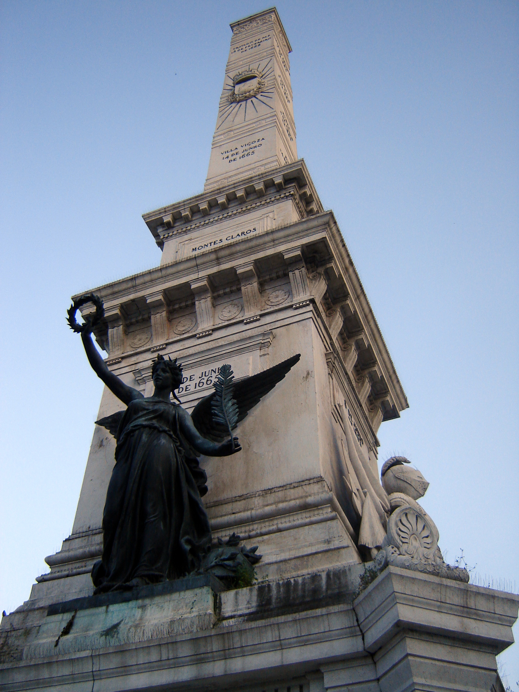 Statue on Lisbon down-town.